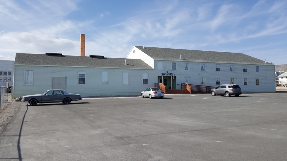 Wendover AFB Restored Officer's Service Club, photo by John Stanton 15 Oct 2016